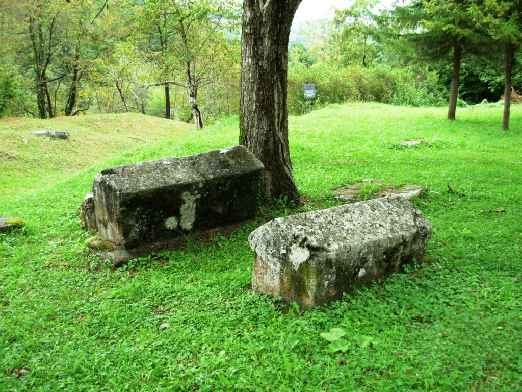 Mramorje, stećak necropolis, Serbia. View before reconstruction of the entire complex in 2011